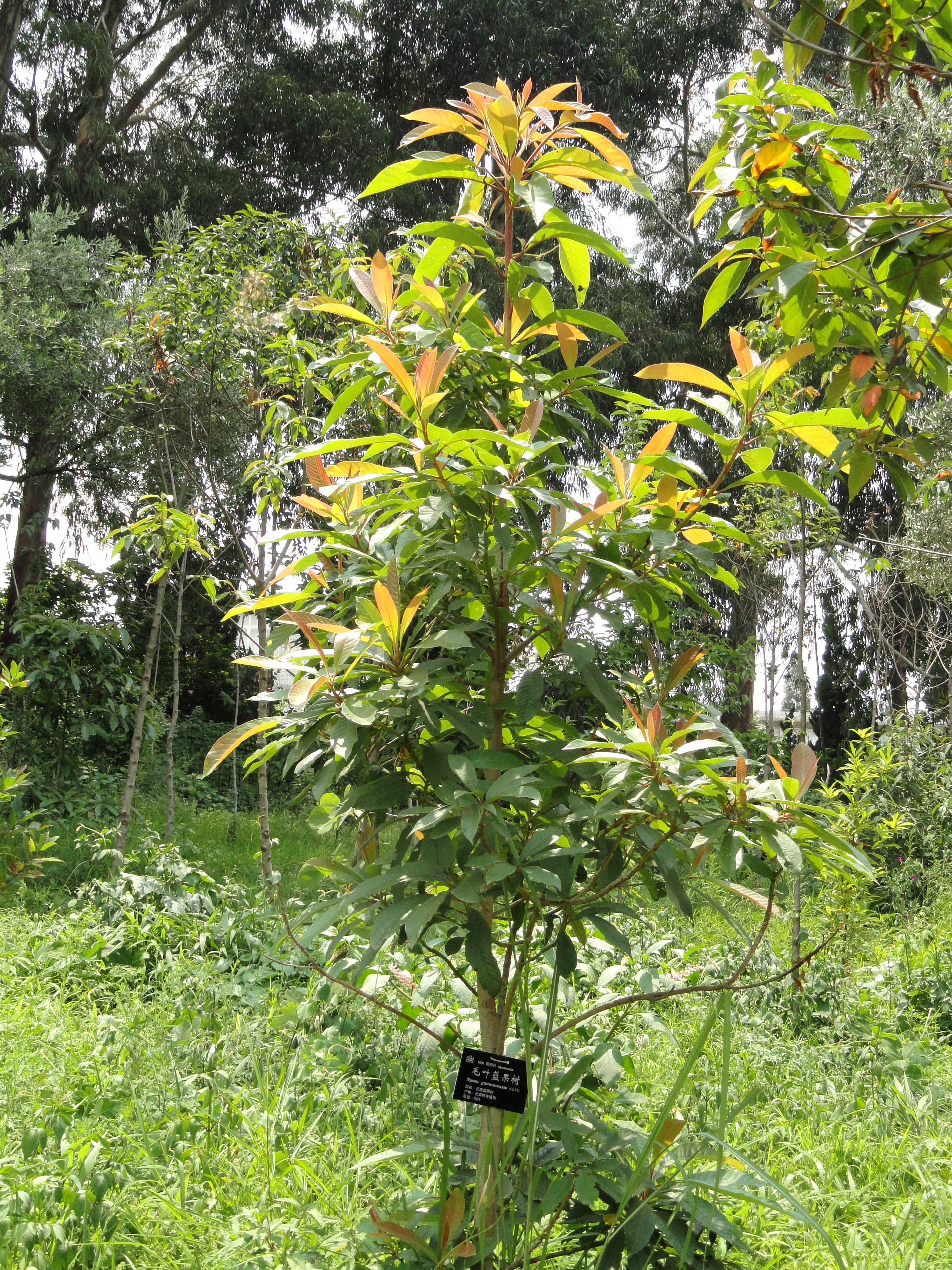 Plant specimen in the Kunming Botanical Garden, Kunming, Yunnan, China.